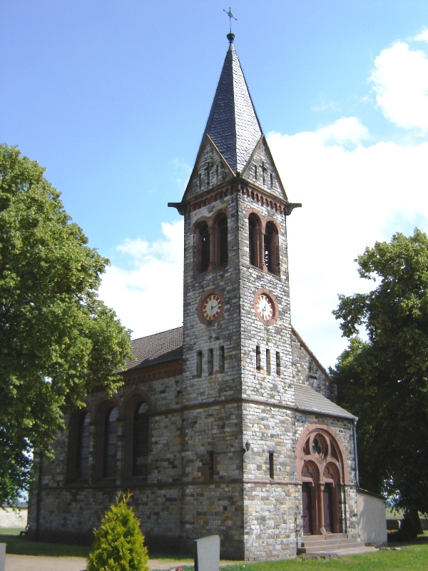 Church in Gommern-Karith (Saxony-Anhalt)